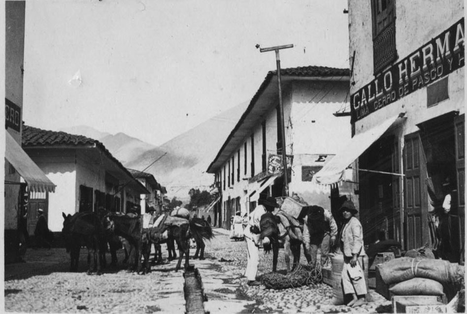 Street and men, sign above storefront reads Gallo Hermanos...Cerro de Pasco. 1923. Name of Expedition: Captain Marshall Field South American Expedition Participants: J. Francis Macbride, Dr. George Bryan Expedition Start Date: February 22, 1923 Expedition End Date: September 25, 1923 Purpose or Aims: Botany Plants Location: Peru, South America Digital Identifier: CSB47234 Learn more about Learn more about The Field Museum's